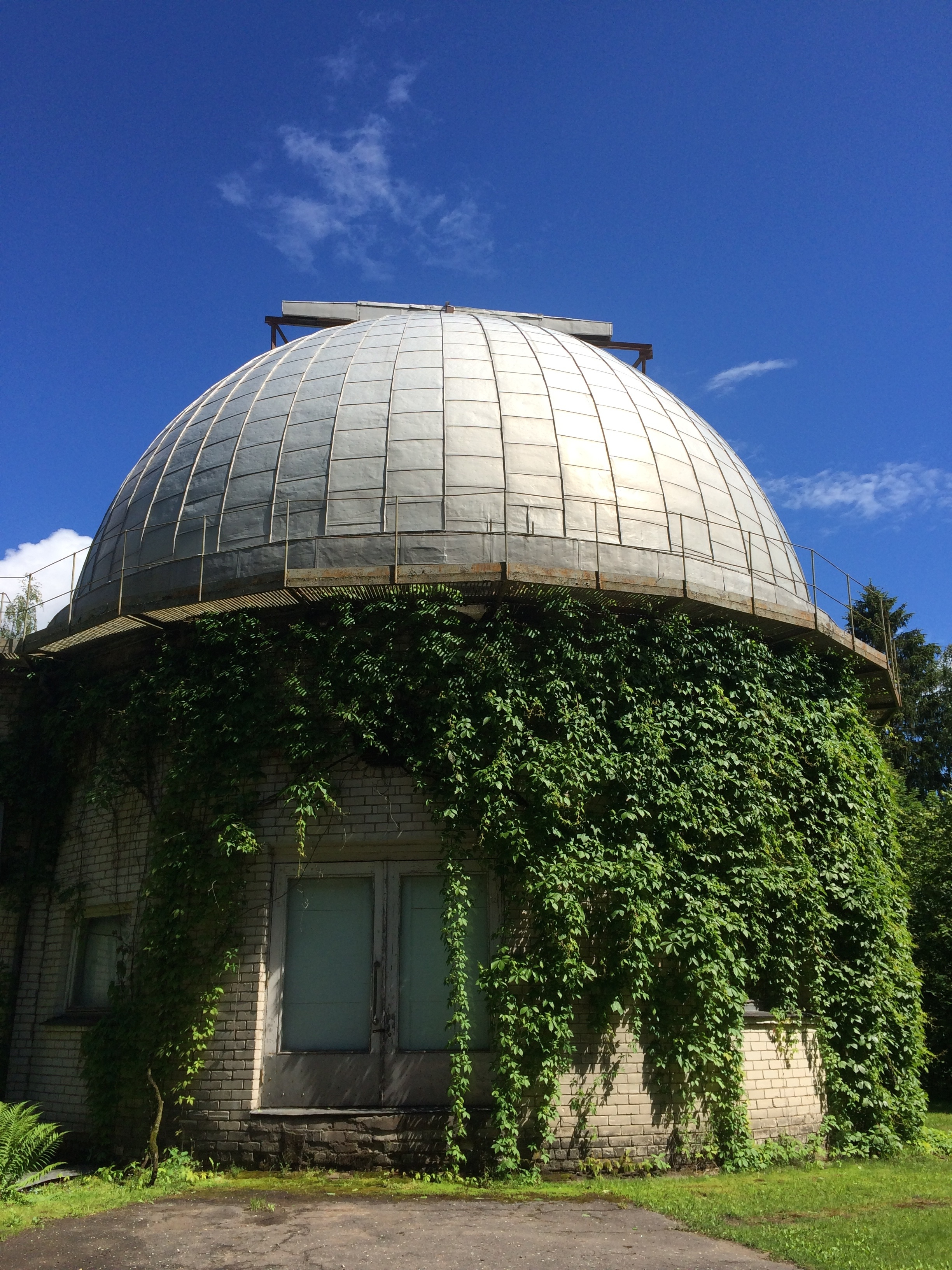 The dome. Baldone observatory in Latvia.